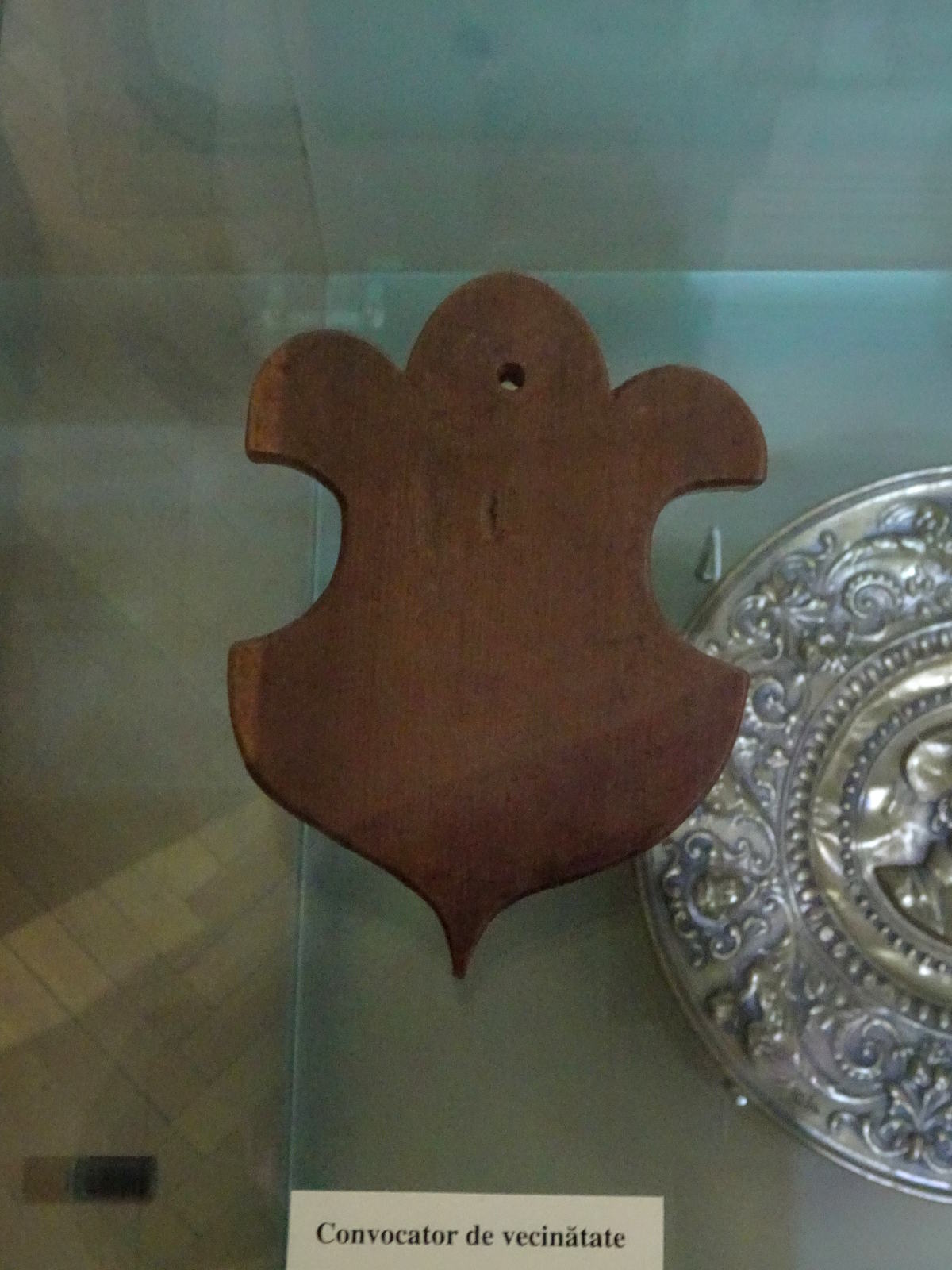 Expositions in Brașov County Museum of History, Brașov, Romania